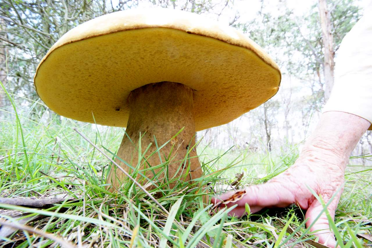 Phlebopus marginatus observed at Honeysuckle Creek, Australian Capital Territory, in an area populated with narrow leafed peppermint snow gums.